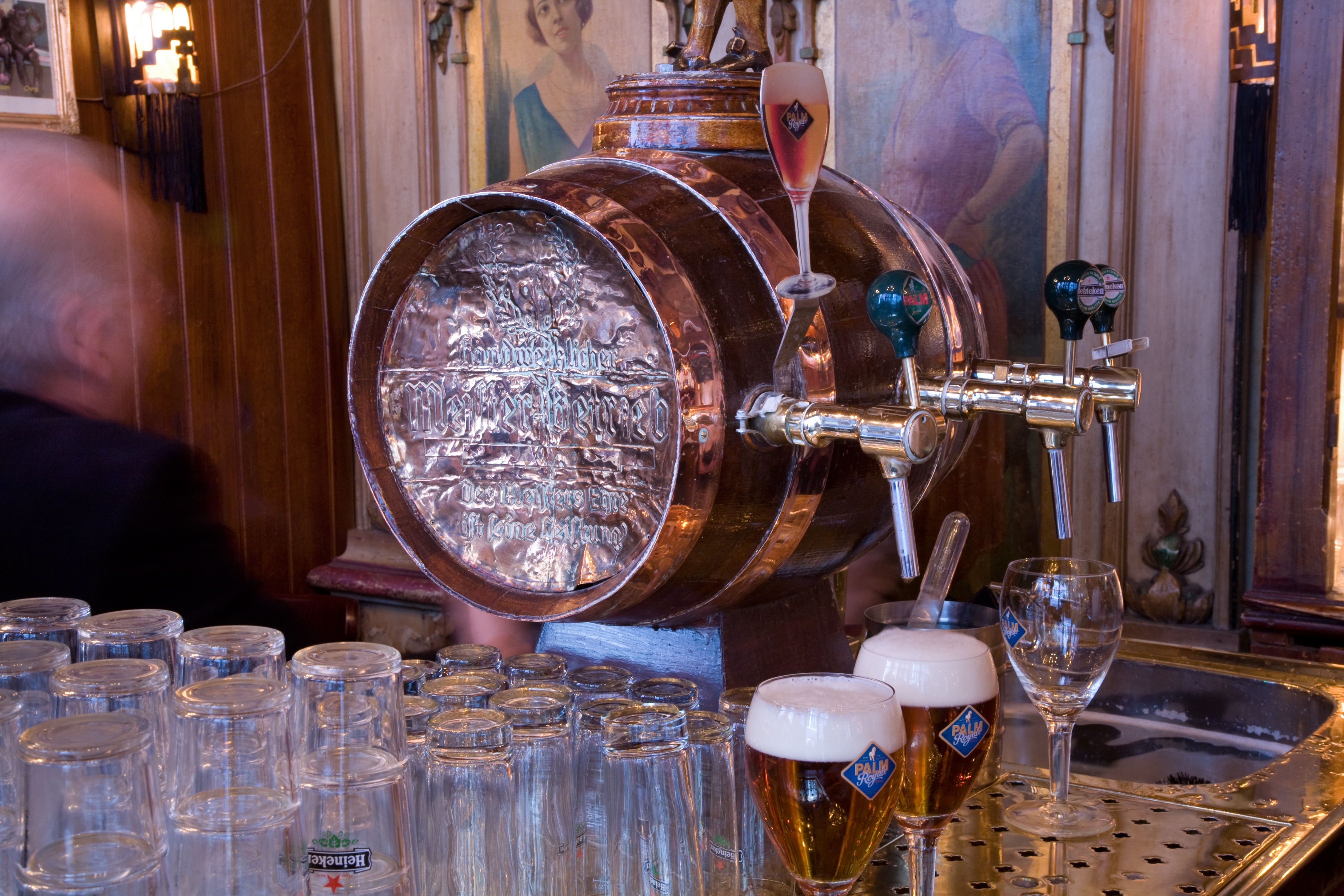 Beer House, Amsterdam, The Netherlands